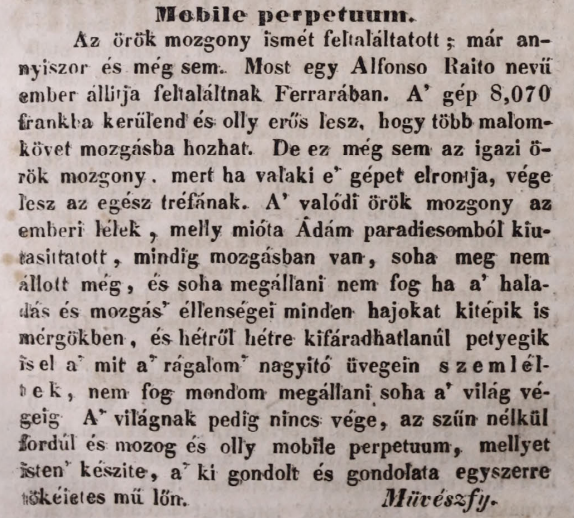 Text about the perpetuum mobile